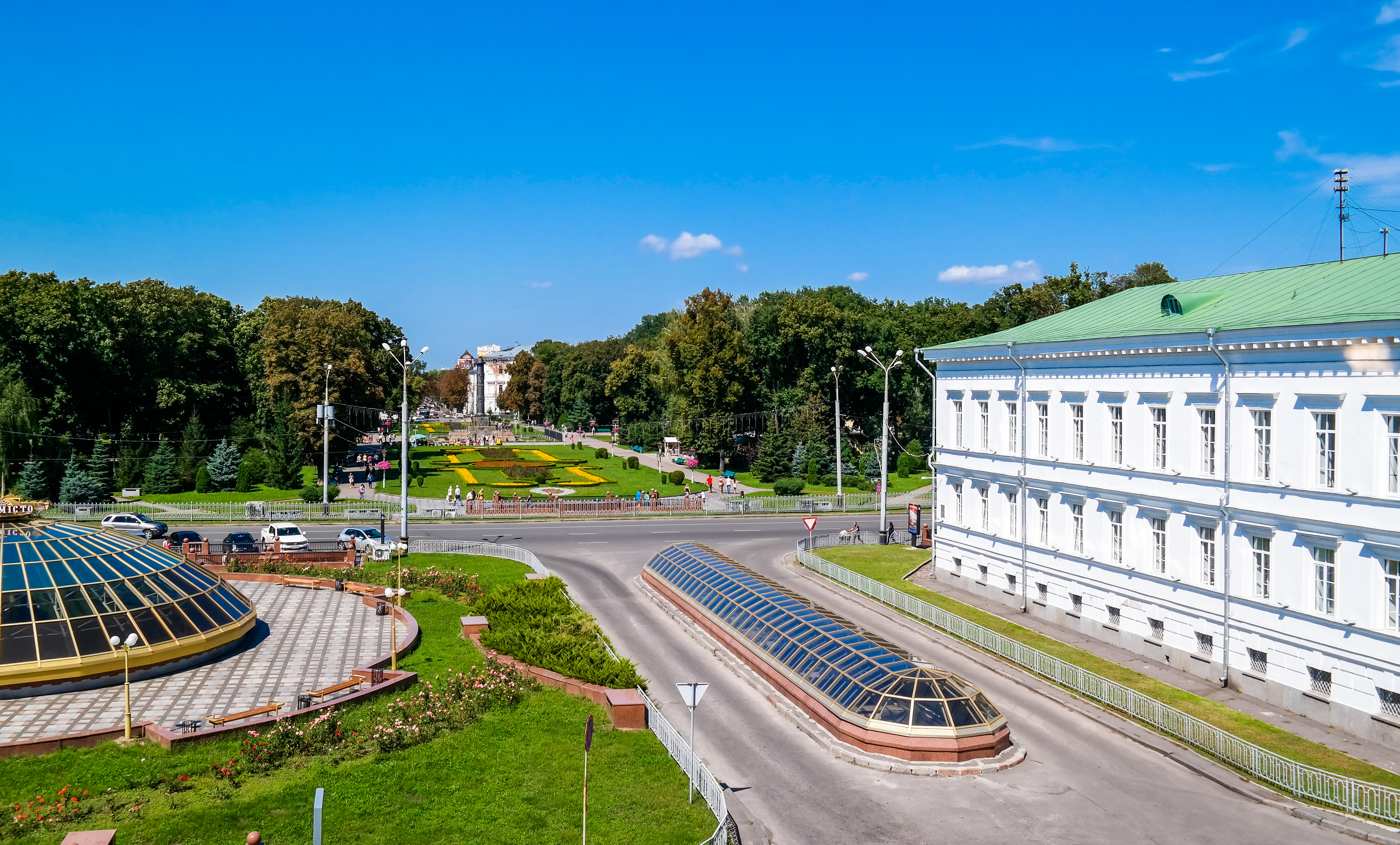 View from the bird's-eye view at the downtown Poltava, Ukraine